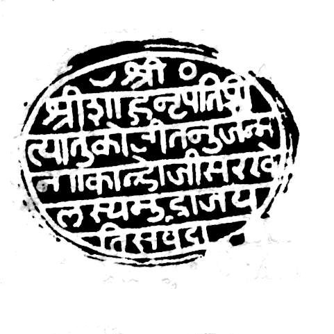 Seal of Sarkhel Kanhoji Angre I, Grand Admiral of Maratha Navy (1698 - 1729)